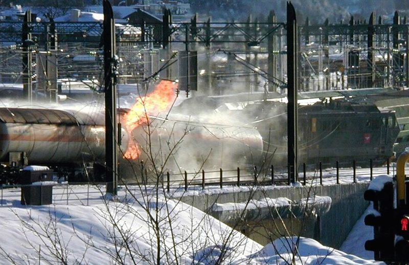 Site of accident. Flames from the gas leakage visable.